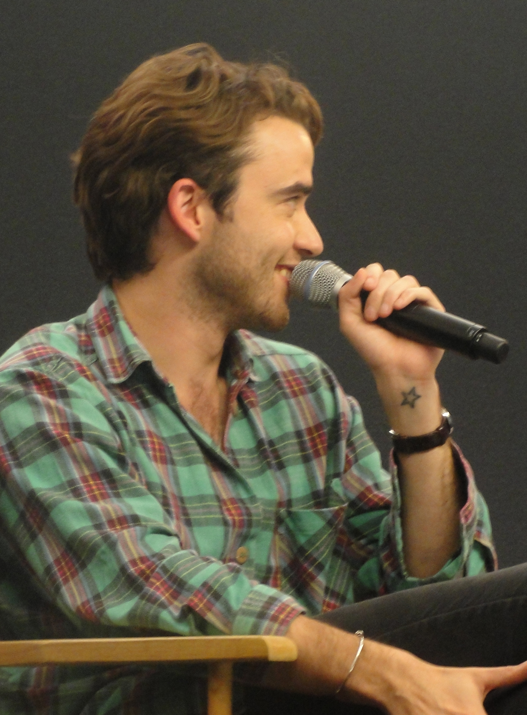 Jamie Blackley at Apple Store in London